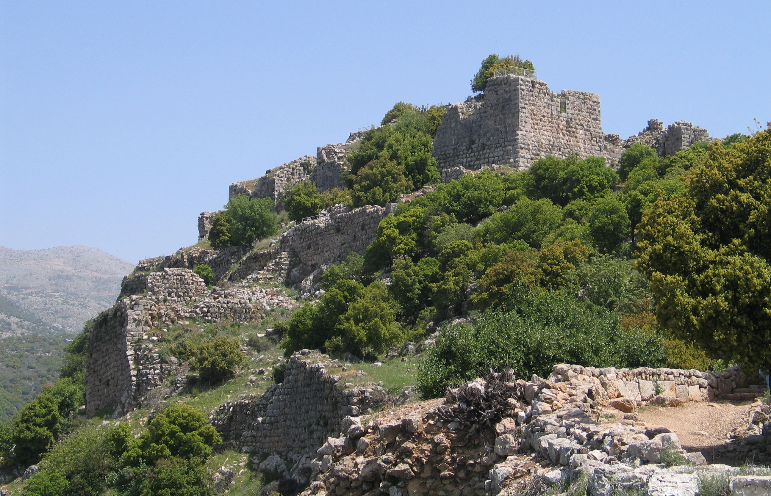 Nimrod fortress, donjon, from the northwest.